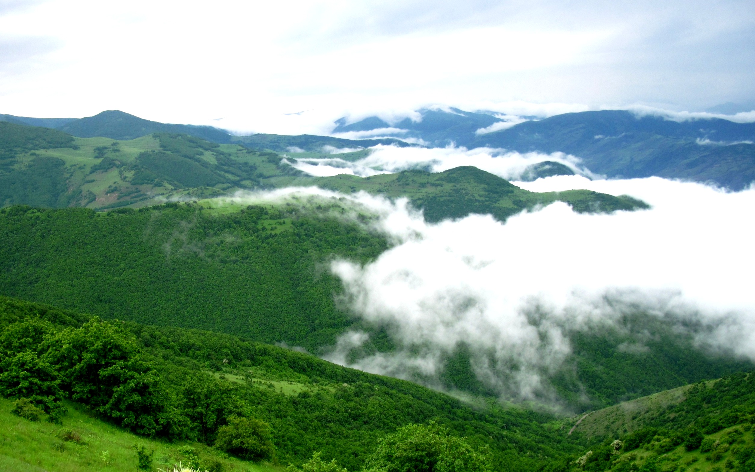 For Khoda Afarin wiki page